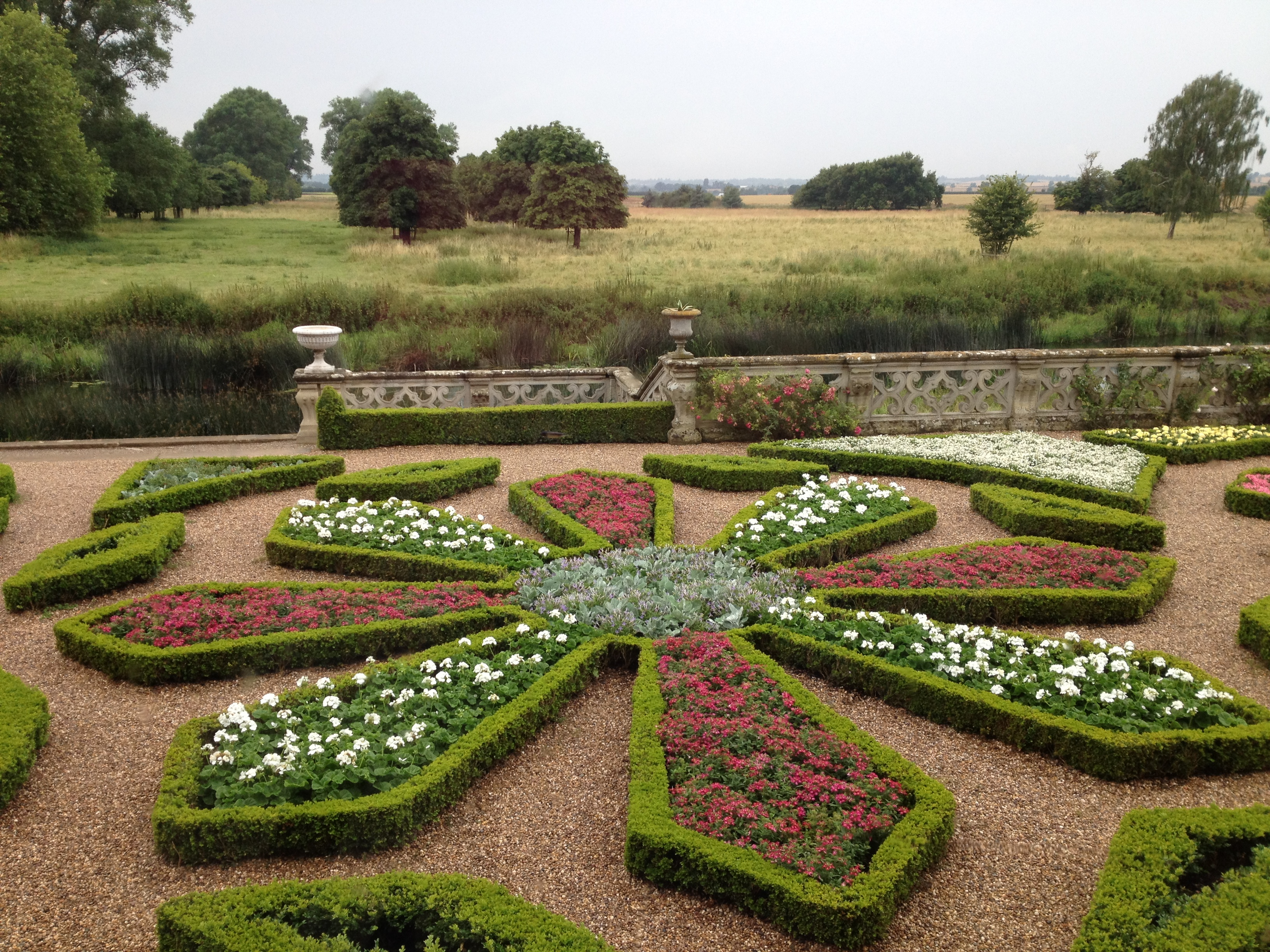 Formal parterre recreated from original 1700 plans at Charlecote Park, Warwickshire, photographed July 2014.